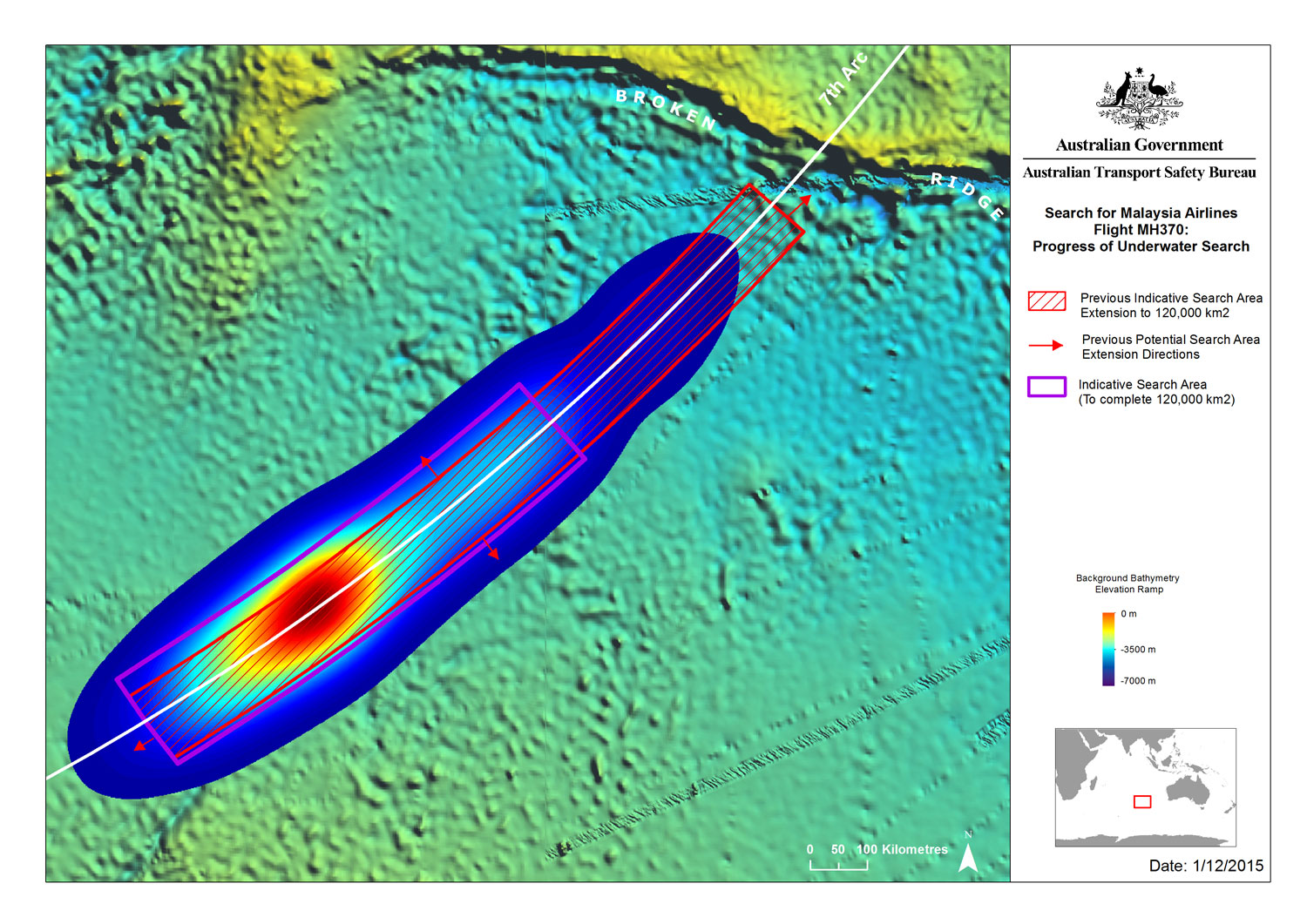 Probability of the location where Malaysia Airlines Flight 370 entered the ocean, based on an analysis by the Australian Defence and Science Technology Group (DST Group) and released on 3 December 2015.